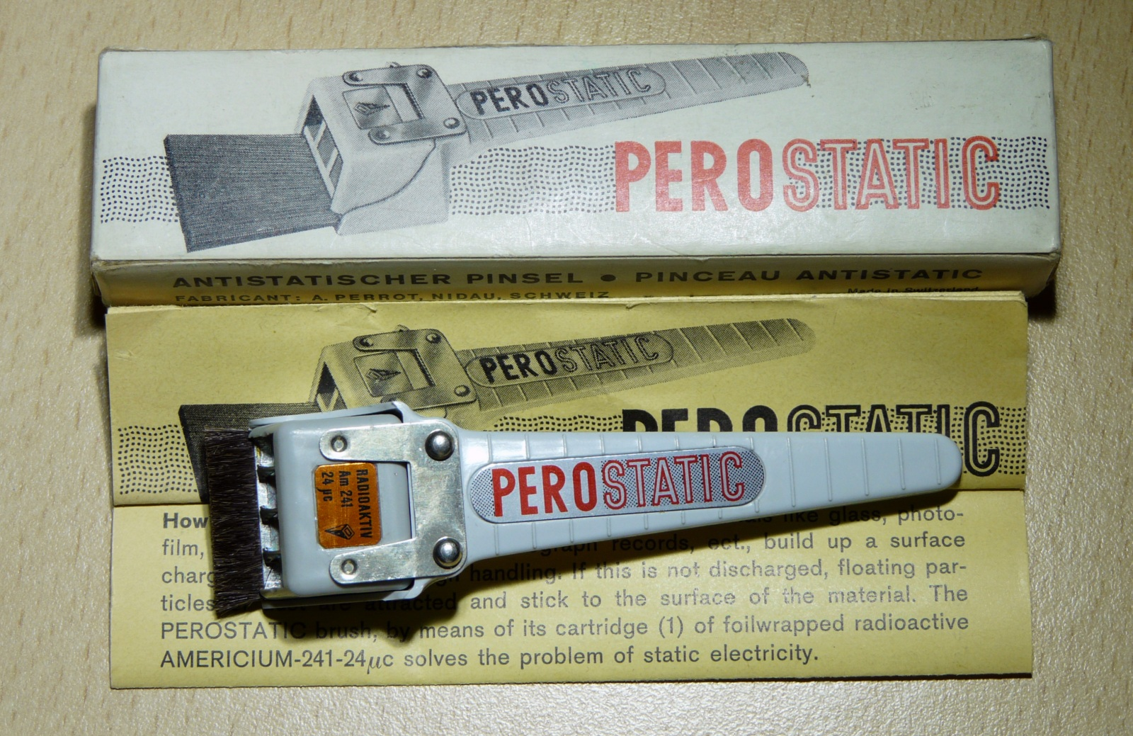 Am-241 Brush, made in switzerland in the 1960´s, source has 24µCi (888 kBq) by brushing slowly over surfaces, static electricity will be removed